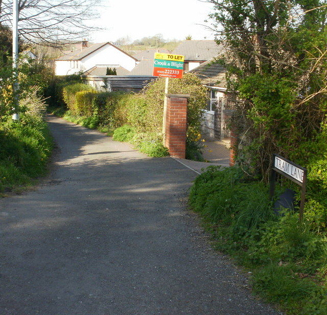 Tram Lane, Caerleon. Viewed from Mill Street. Trams (or tram roads or tram lanes) were roads with wooden, stone, or metal wheel-tracks, originally in or from a coalmine, later used more widely. Once common in south-east Wales, nowadays the street name is often the only remaining evidence of a tram. Another former tram road is nearby.